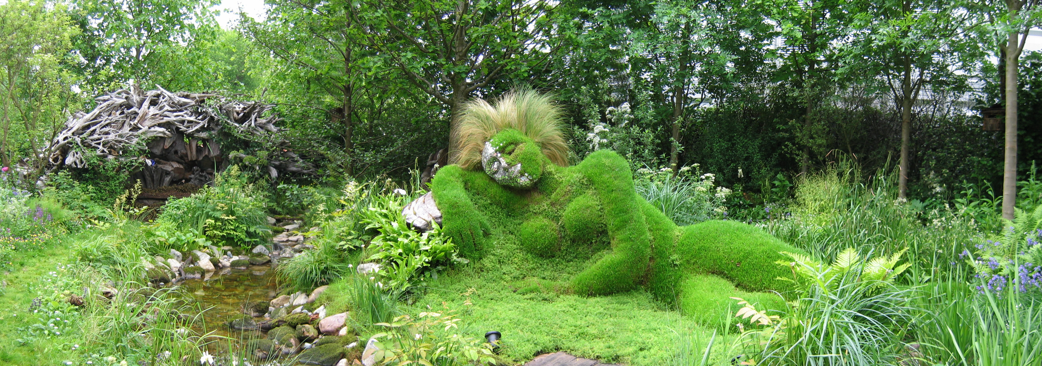 Land art in one of the show gardens, Chelsea Flower Show, 2006. Panorama of 3 photos taken with a Canon PowerShot A80.